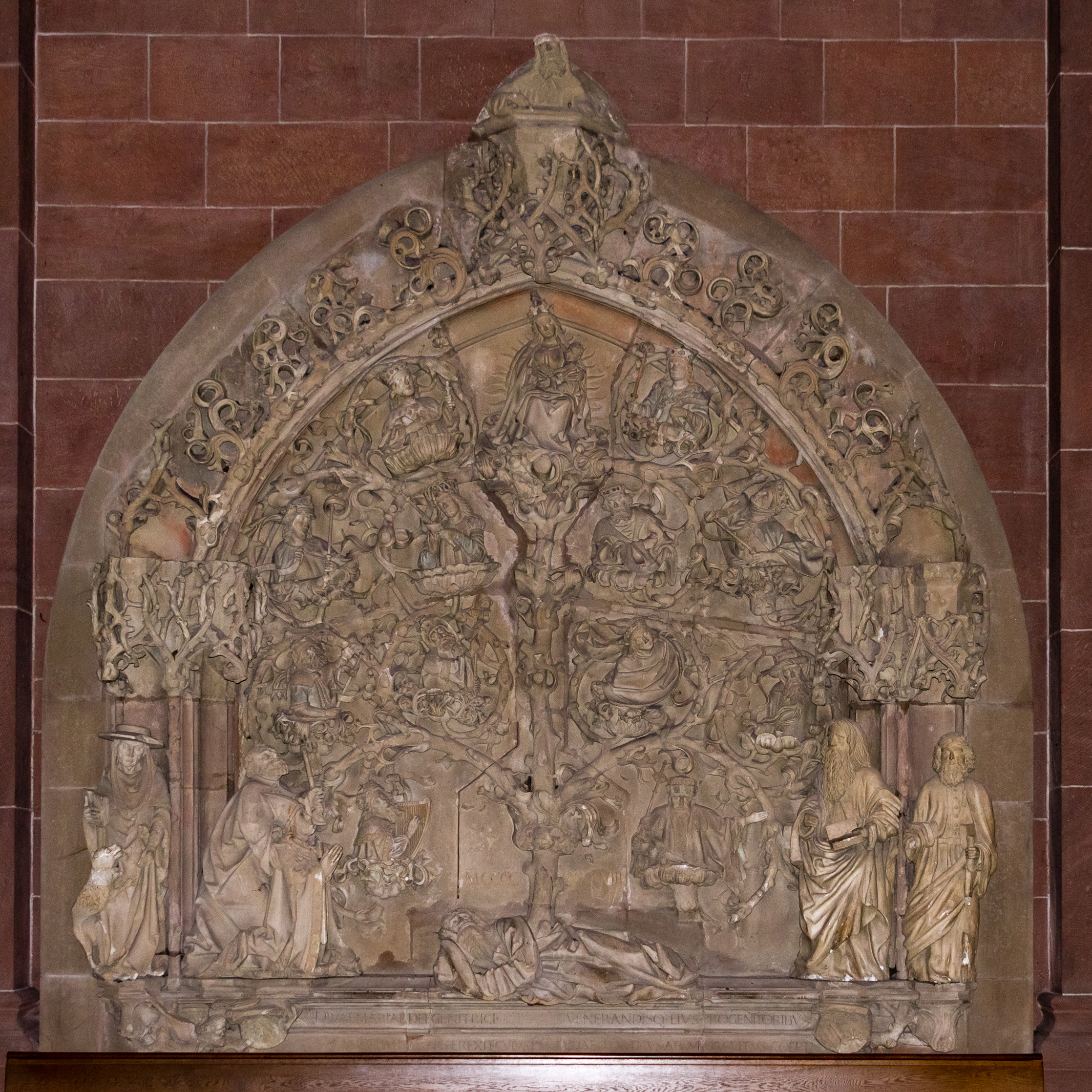 This is a photograph of an architectural monument. It is on the list of cultural monuments of Worms Designation: Catholic St Peter's Dom Construction time: 1130 to 1181 Description: Late Romanesque double-choir three-nave basilica with transept, crossing tower and four corner towers, chapel and sacristy buildings. East choir, transept and nave on the foundation walls of the late-ottonian Burchard dome, begun in 1005, and the masonry of the west towers. East parts 1130-45, nave bay two to five completed in 1160-70, west choir around 1200. Late Gothic Nikolauskapelle, circa 1280-1315. Gothic south portal, soon after 1300. Annen- and Georgskapelle, shortly after 1300. Late Gothic chapel of the Holy Cross or Silver Chamber, end of the 13th century. Late Gothic Aegidia or St. Mary's Chapel, second half of the 15th century. Southern cloister portal (Schloßgasse 6), late Romanesque stepped portal, late 12th century. Domestic equipments South of the cathedral remains of a piscina in early Christian-early medieval tradition. In front of the west choir 'Siegfriedstein', limestone block. Spolia in the garden (former cloister): Romanesque building sculpture. In the enclosure wall at the Platz der Partnerschaft sandstone reliefs, 1930s. Place: Municipality Worms, Rhineland-Palatinate, Germany Location: Domplatz House number: 1